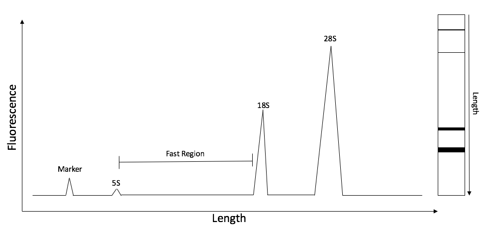 An idealized version of an electropherogram trace with the important regions labeled